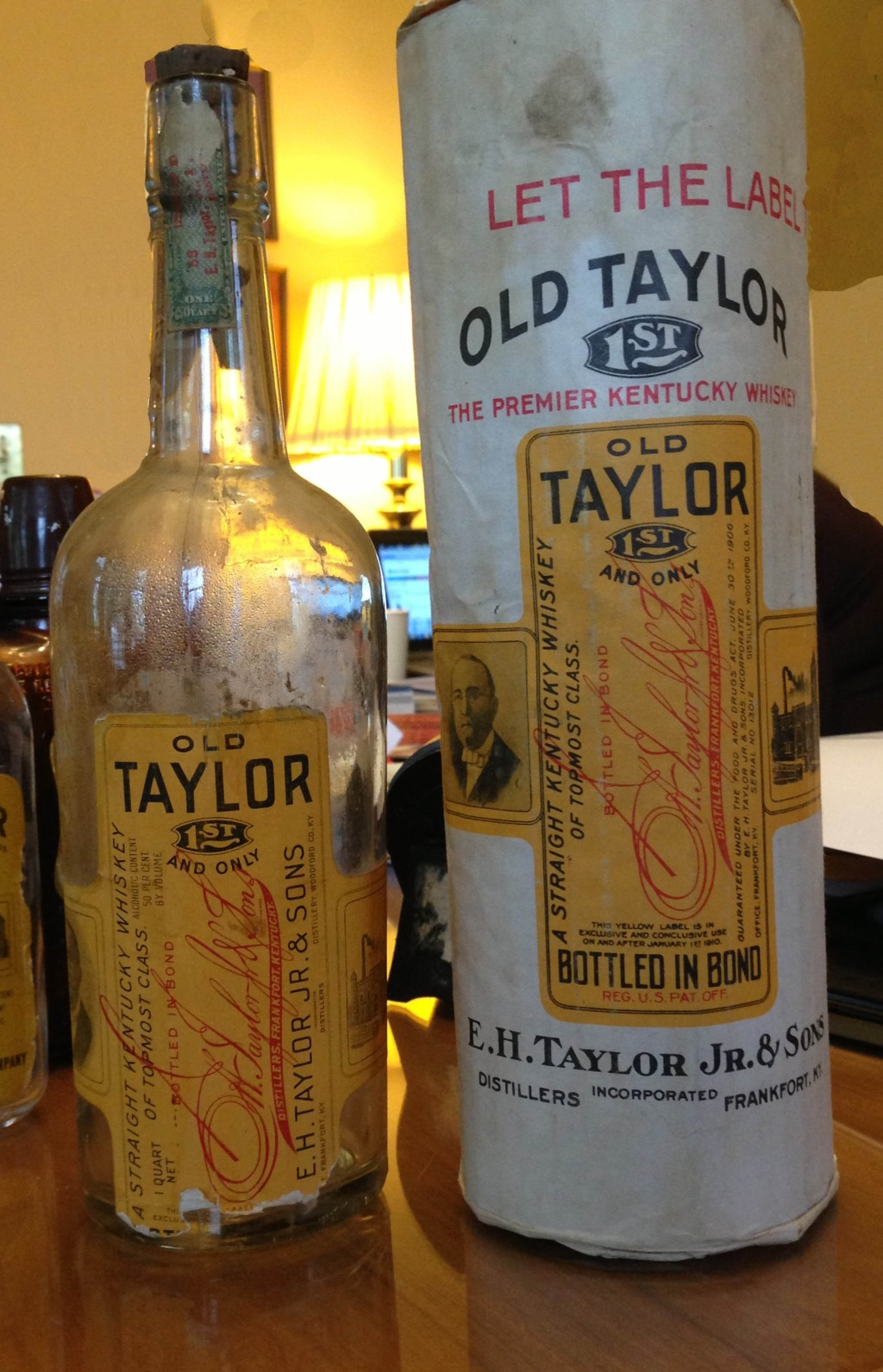 Old EHT bottle